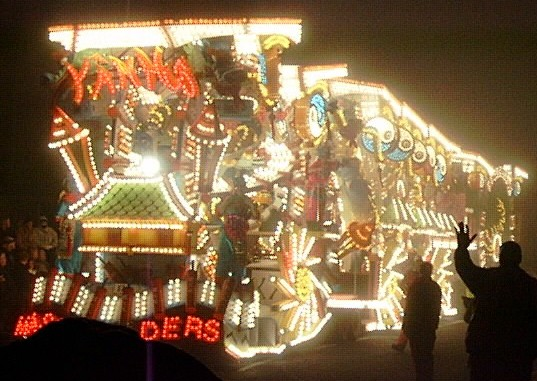 YÁN_HUÓ by Masqueraders CC, Burnham on Sea Carnival 2006